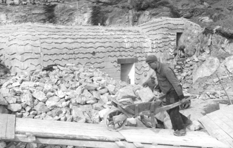 Stp. 7a Hammerviken near Bodø. Demolished, 2007.